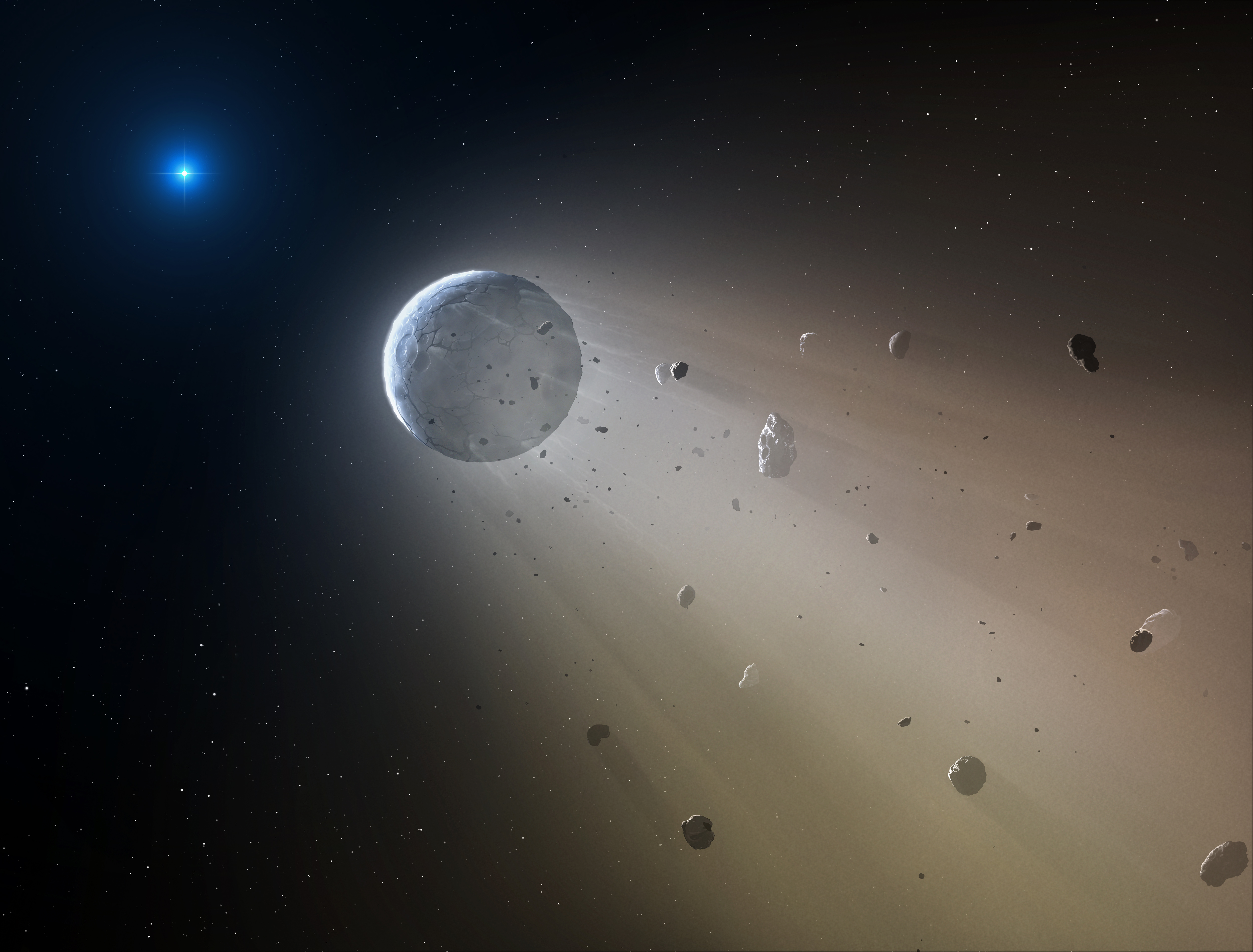 This artist's depiction shows a white dwarf star; the dead remnants of sun-like stars; vaporizing a minor planet as it orbits around it, causing rocky materials to show up in the spectrum of the star.